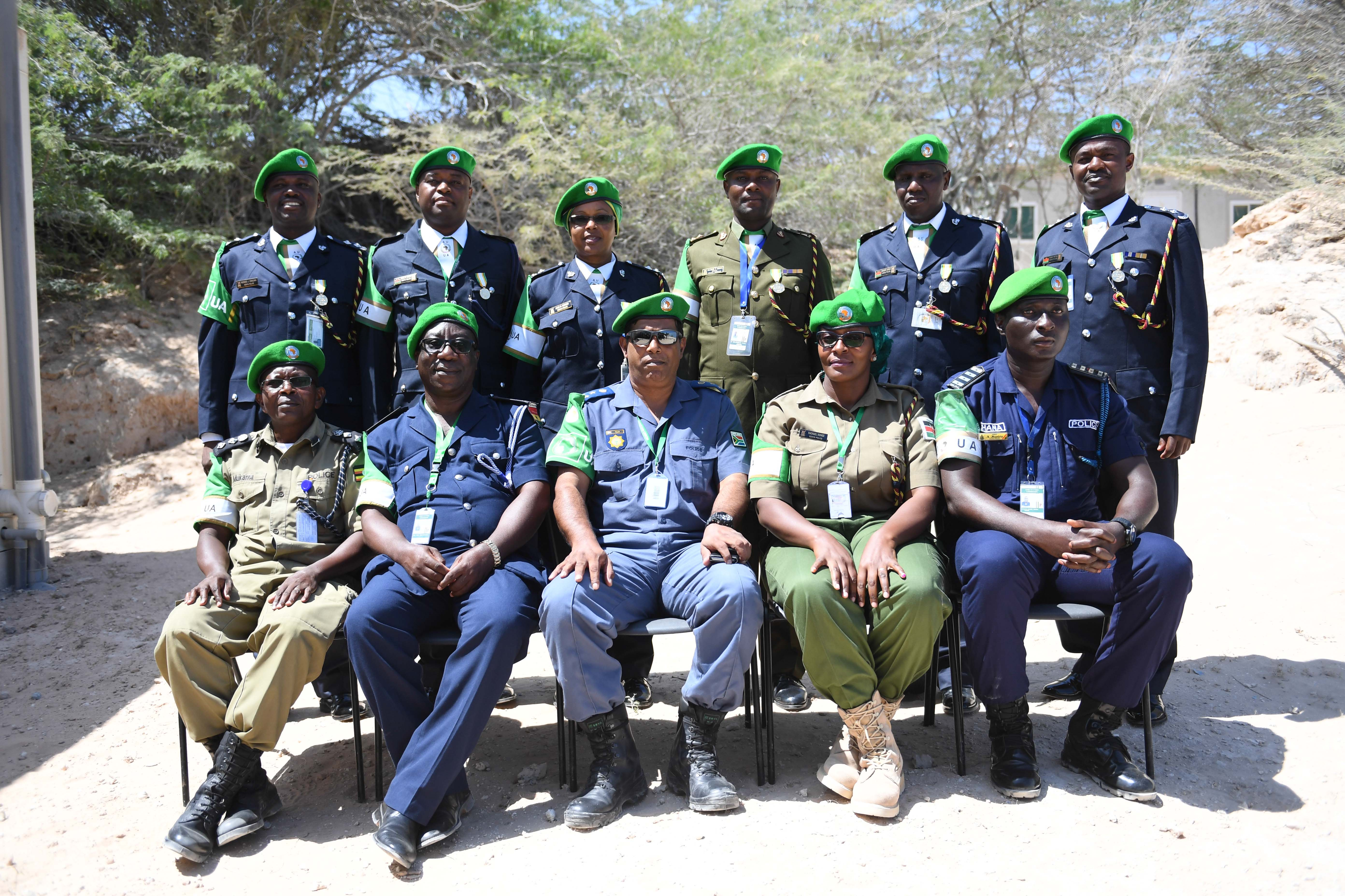 AMISOM Commissioner of Police Brigadier Anand Pillay (centre-seated) and other senior police officers pose for a group photo during the medals awards ceremony for six Kenyan Individual Police Officers in Mogadishu on February 18, 2017. AMISOM Photo/Atulinda Allan Note: The six officers who are rotating out are Chief Inspector Simon Kirui, Inspector Solomon Ondiba, Inspector Jane Mwelu, Inspector Henry Kali, Inspector Hondo Chacha and Constable David Kinoti.